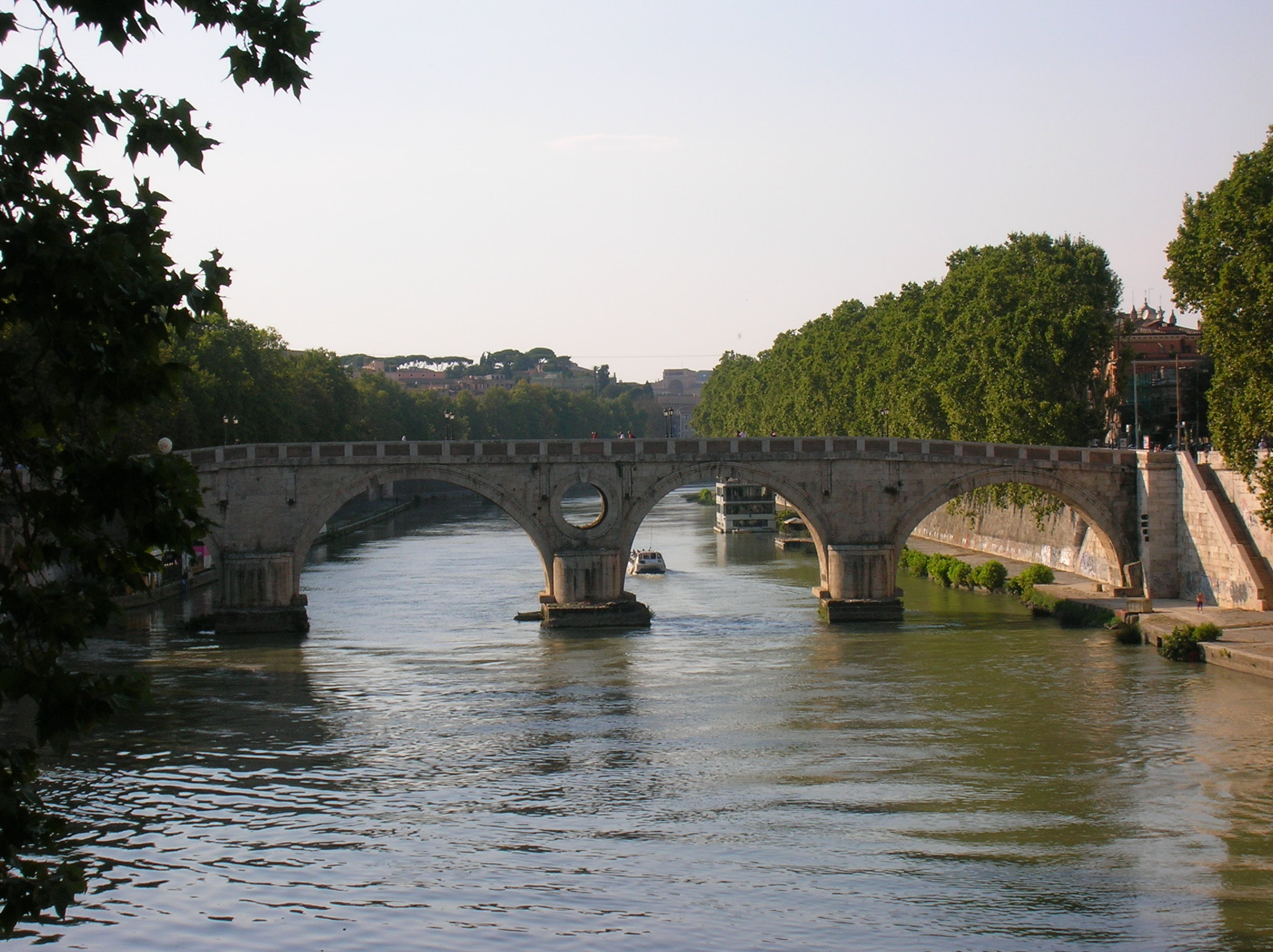 Ponte Sisto in Trastevere, Rome